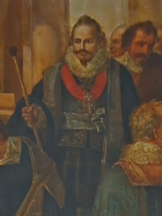 The Marquis of Gouveia acting as High Steward (Mordomo-mor) during the Acclamation of King John IV of Portugal in 1640. Detail from an 1823 wall mural by José da Cunha Taborda, National Palace of Ajuda, Lisbon, Portugal.